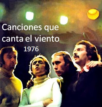 Cuarteto Zupay. Argentina. Folk group. From left to right: Eduardo Vittar Smith, Marcelo Díaz, Pedro Pablo García Caffi, Rubén Verna.